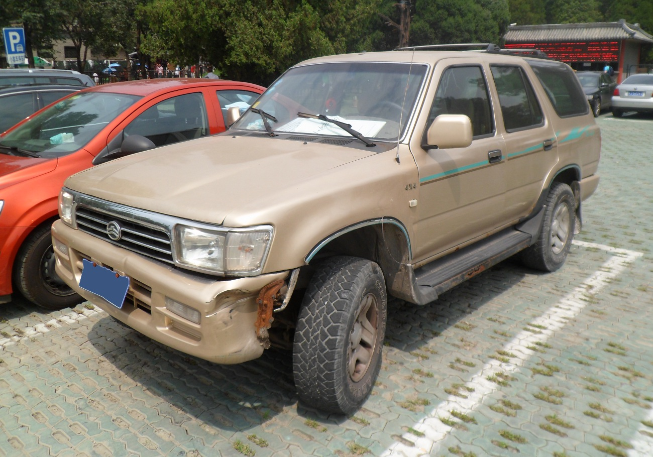 Great Wall Safe photographed in Beijing, China.